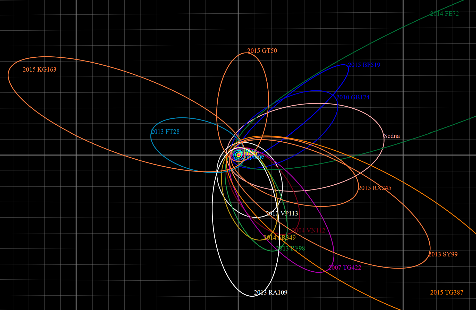 16 Extreme transneptunian object orbits